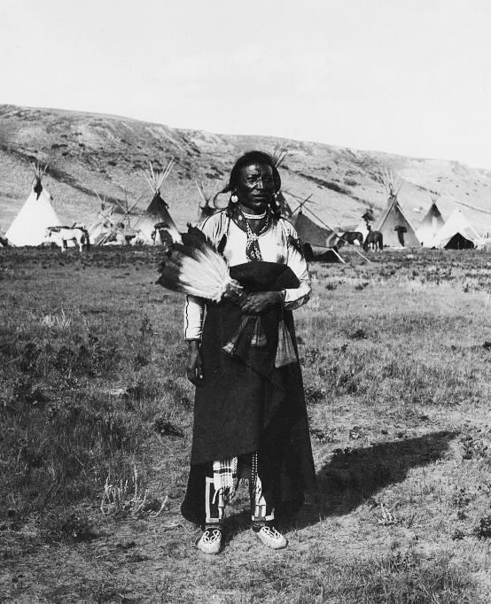 Photograph, Winnipeg Jack, Blackfoot, North West Mounted Police scout and interpreter, AB, about 1890, S. J. Thompson, Silver salts on paper - Gelatin silver process - 23 x 18 cm